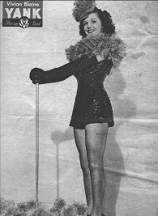 Pin-up photo of Vivian Blaine for the Sep. 1, 1944 issue of Yank, the Army Weekly, a weekly U.S. Army magazine fully staffed by enlisted men.